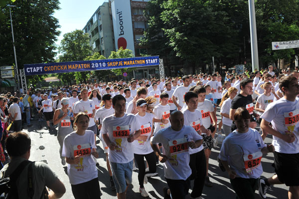 Mass race start, Skopje Marathon, Skopje, Macedonia, 2010